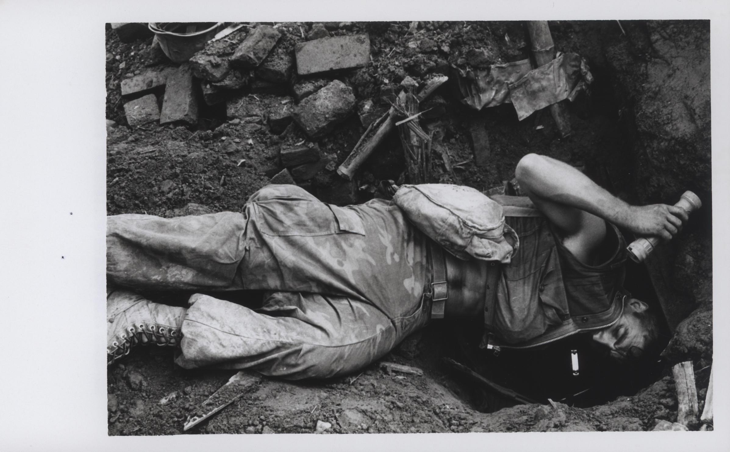 "Tunnel Rat: Marine Lance Corporal John R. Gartrell (Fort Smith, Arkansas) crawls into a captured North Vietnamese bunker during Operation Meade River, southwest of Da Nang. He is a member of the 26th Marines, 1st Marine Division." From the Jonathan F. Abel Collection (COLL/3611), Marine Corps Archives & Special Collections OFFICIAL USMC PHOTOGRAPH